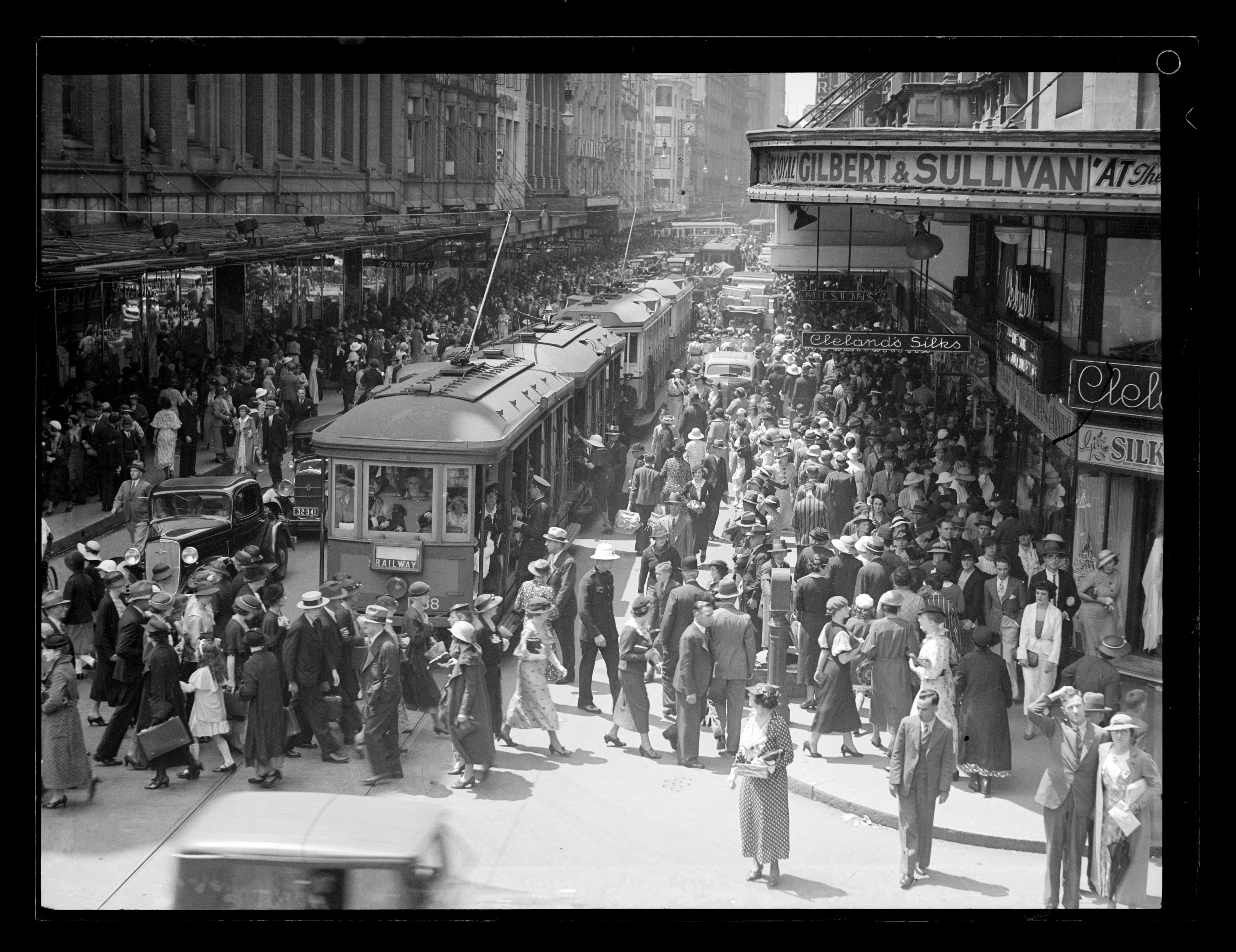 Find more detailed information about this photographic collection